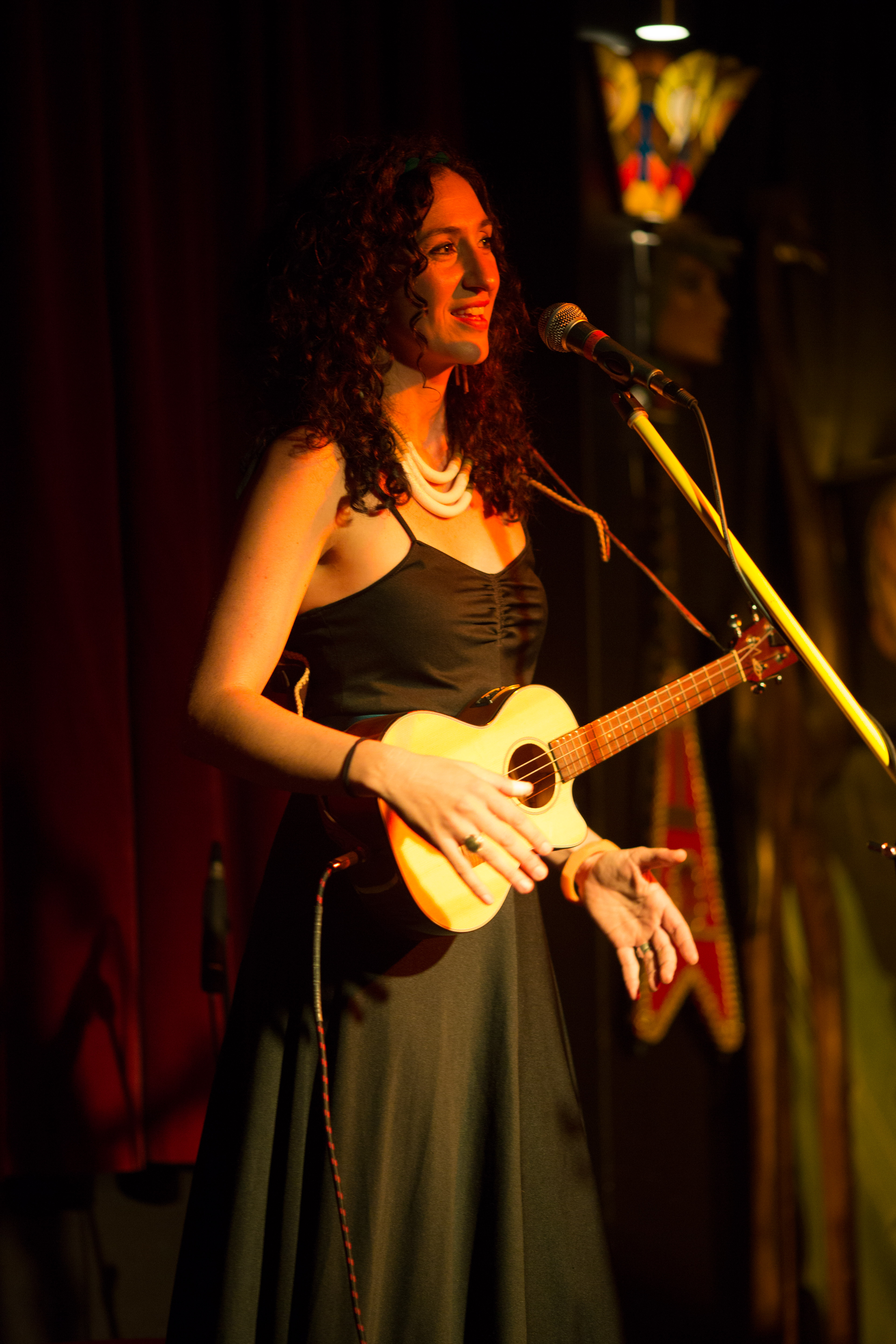 Mama Kin at Camelot - 30th October 2012